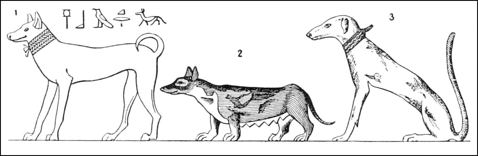 Dogs from the Egyptian monument